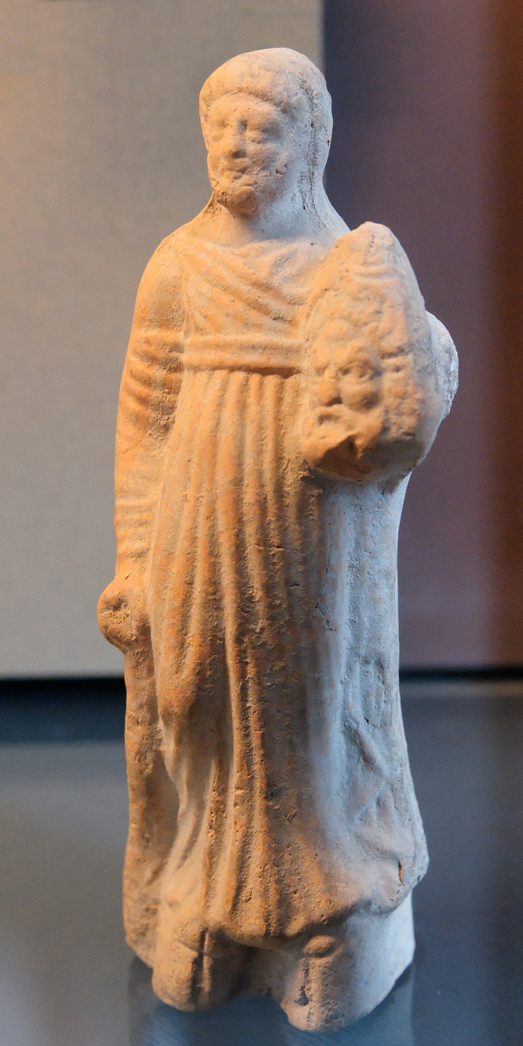 Tragic actor playing the role of Herakles: he holds a club and mask with a lion-skin. Terracotta, made in Amisos ca. 175–150 BC. From Amisos.